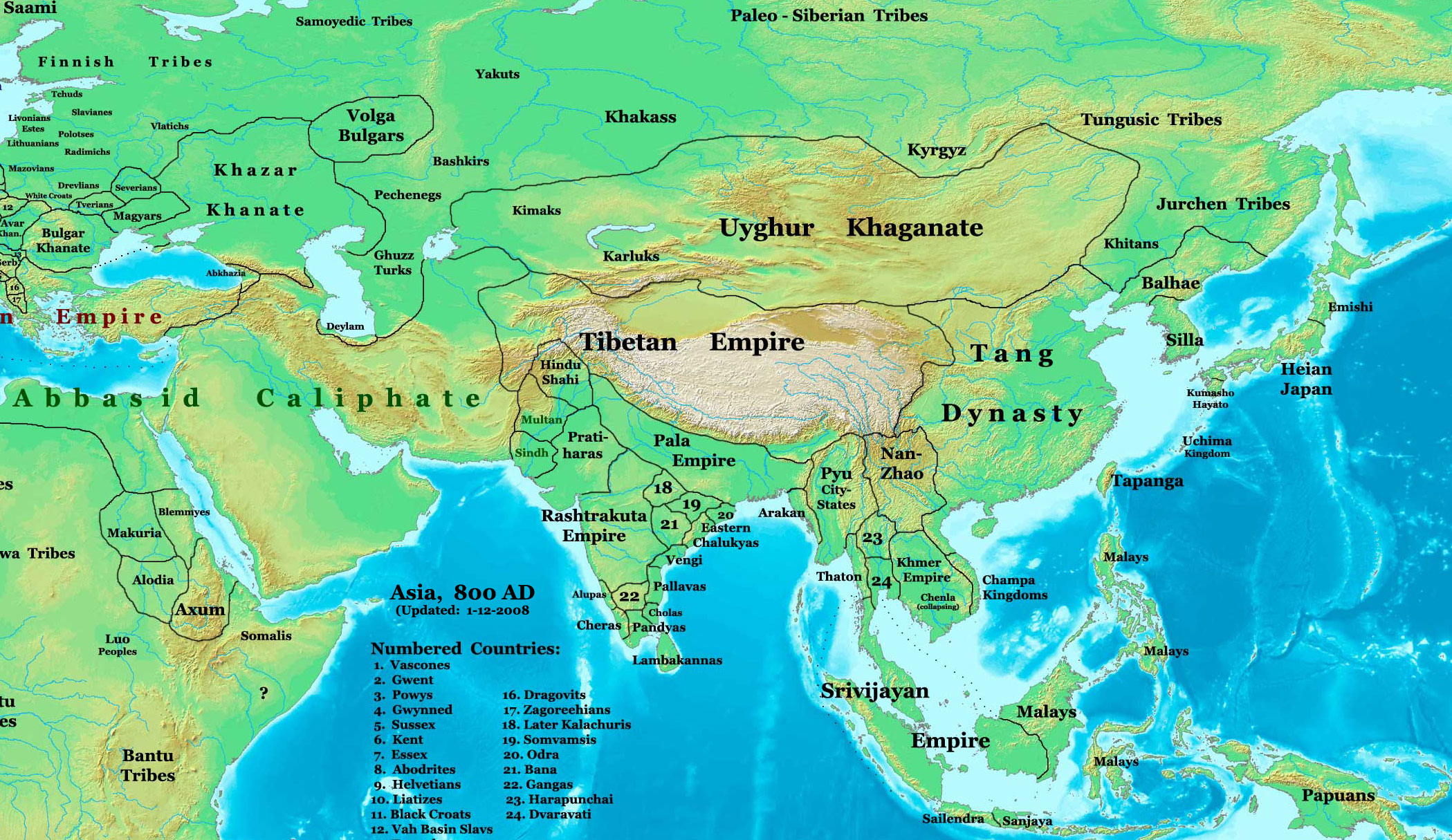 This image is a zoomed-in version of Image:East-Hem_800ad.jpg (Eastern Hemisphere in 800 AD). Author: Thomas A. Lessman. Source URL: Image was created by me (Thomas Lessman) based on map of Eastern Hemisphere in 800 AD. Image is free for public and/or educational use. I would appreciate a mention if this image is used elsewhere. If anyone is interested in helping further this work, please contact Thomas Lessman at . Other Historical Maps by Thomas Lessman 500 BC 323 BC 200 BC 100 BC 050 BC 001 AD 050 AD 100 AD 200 AD 300 AD 400 AD 475 AD 476 AD 477 AD 500 AD 565 AD 600 AD 700 AD 800 AD 900 AD 1025 AD 1100 AD 1200 AD